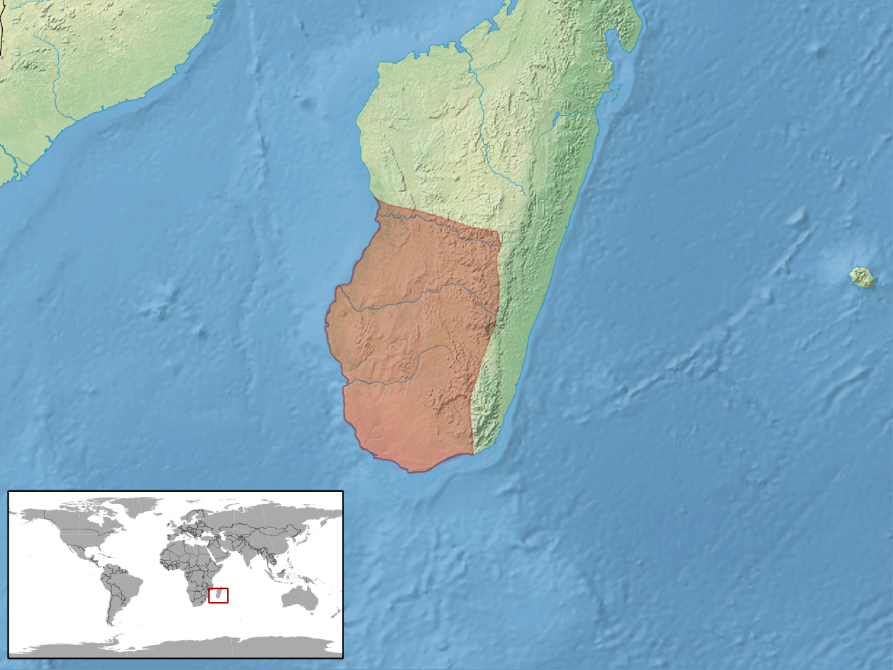 geographic distribution of Trachylepis aureopunctata